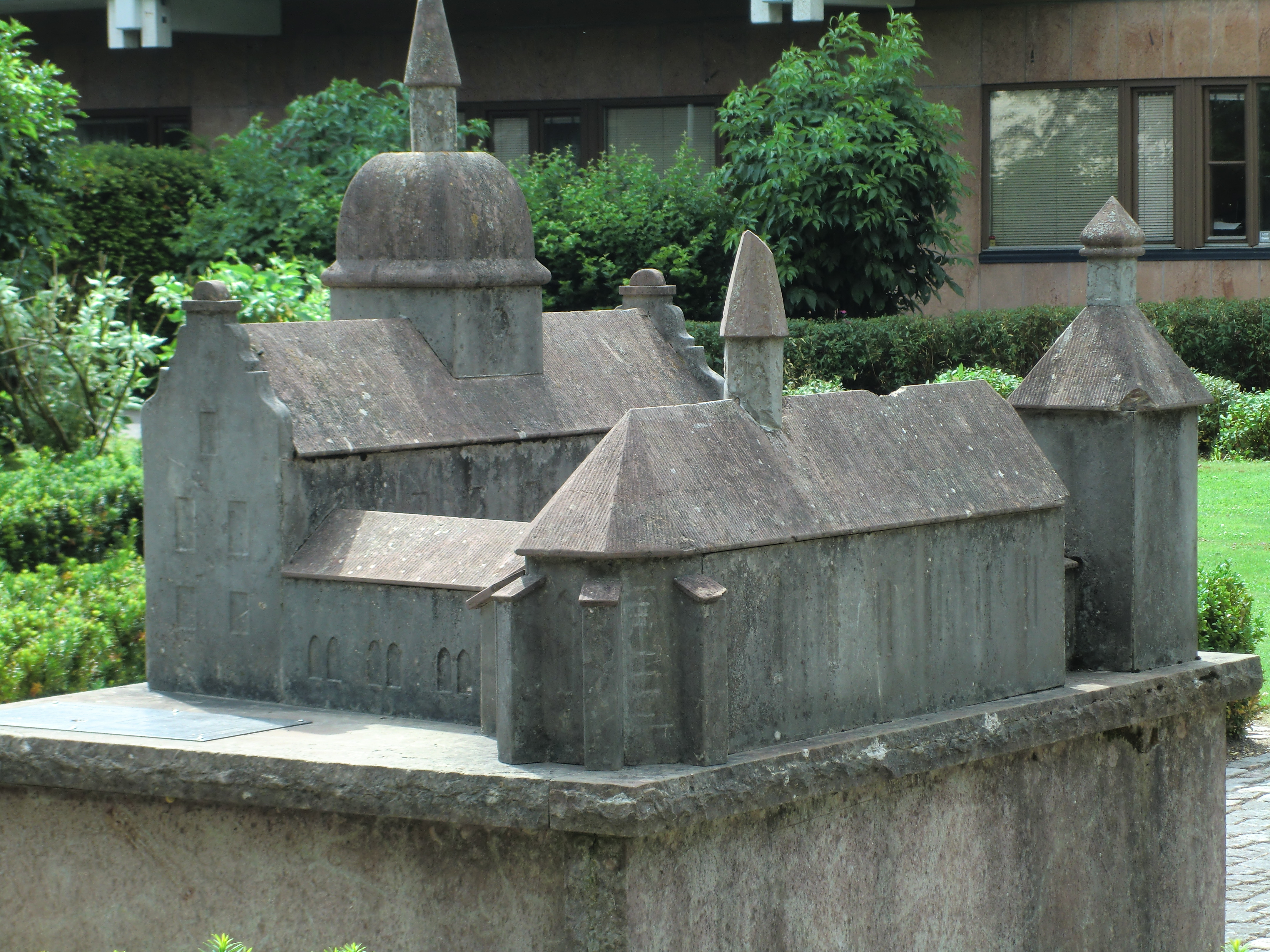 Stonemodel of the swedish castle Skaraborg, located at the place of the old building in Skara.